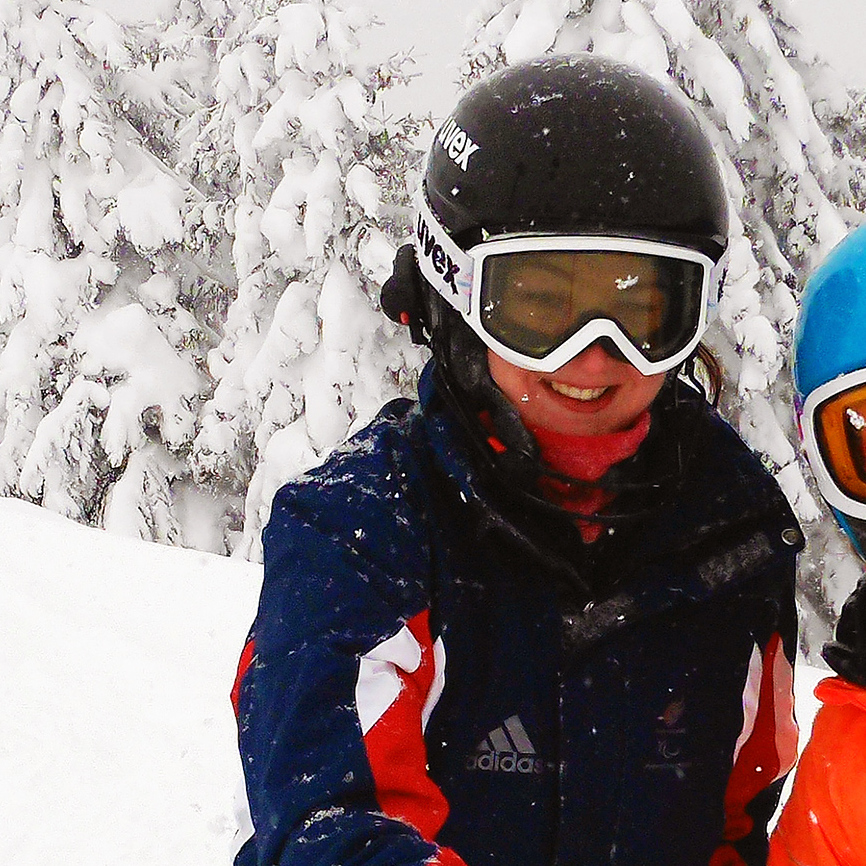 Menna Fitzpatrick taking a selfie with Guide Jennifer Kehoe